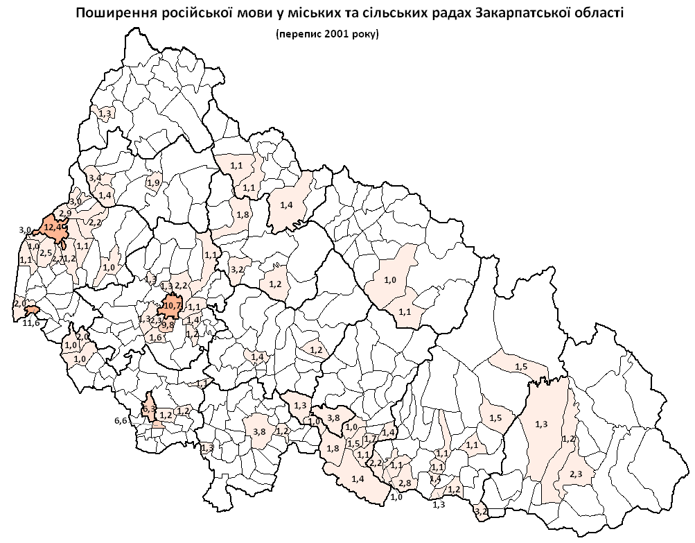 Russian as native language in Zakarpattia oblast according to 2001 census